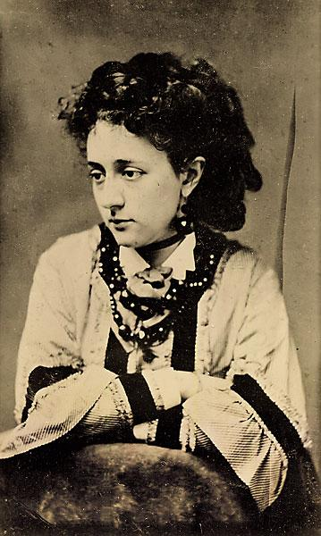 Lola Montez at the height of her stage performance career